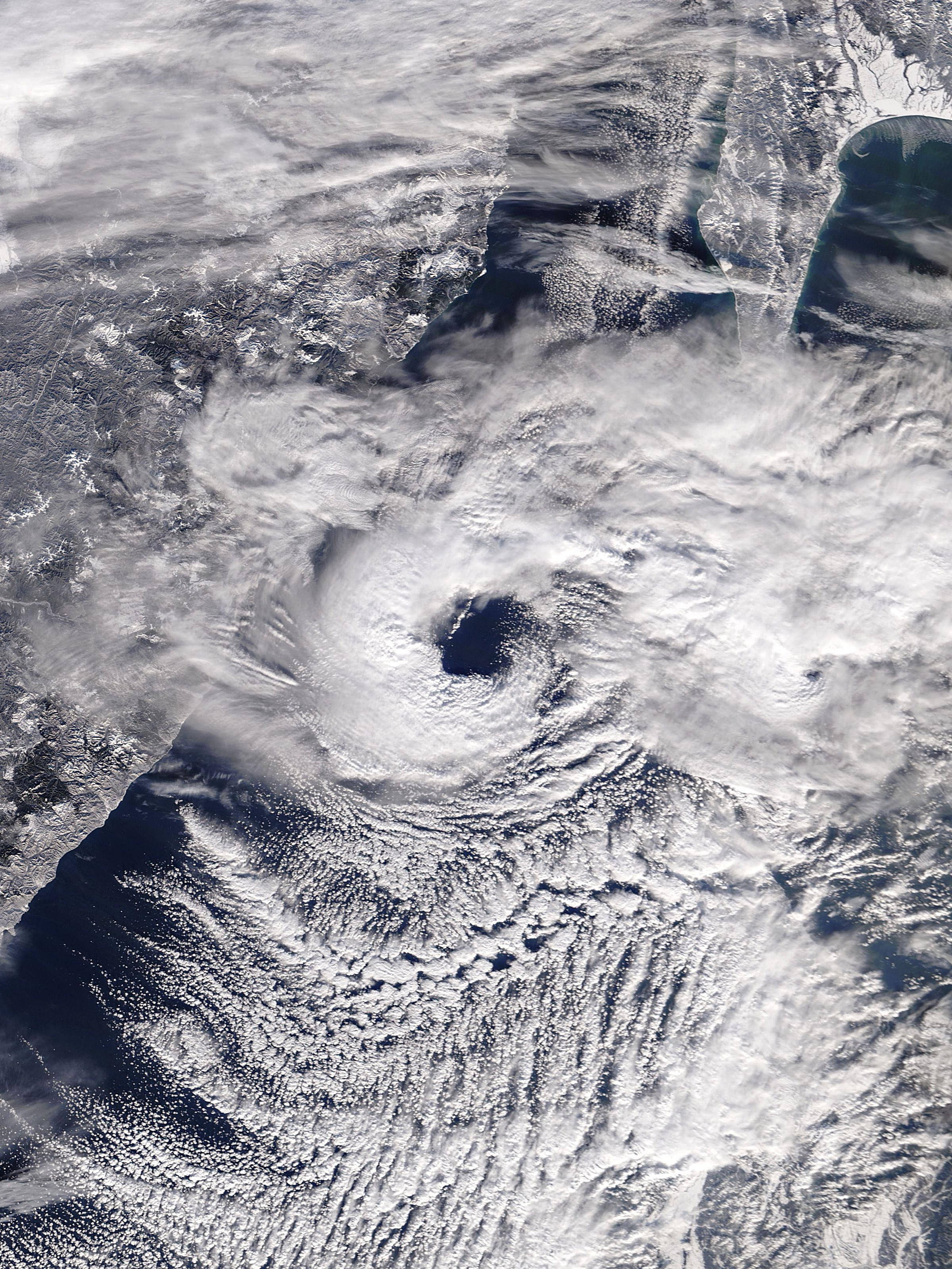 A unique polar low over the Sea of Japan with the very distinct eye-like feature was captured by the Terra satellite at 11:13 Japan Standard Time or 13:13 Magadan Time on December 20, 2009. With a cold-core low aloft, the polar low had a roughly circular ring of deep convection and brought gale-force winds and heavy snowfall to Hokkaido and Sakhalin.